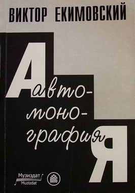 Ekimovsky, Viktor Alekseyevich, (b. Moscow, 1947). "Automonografia"